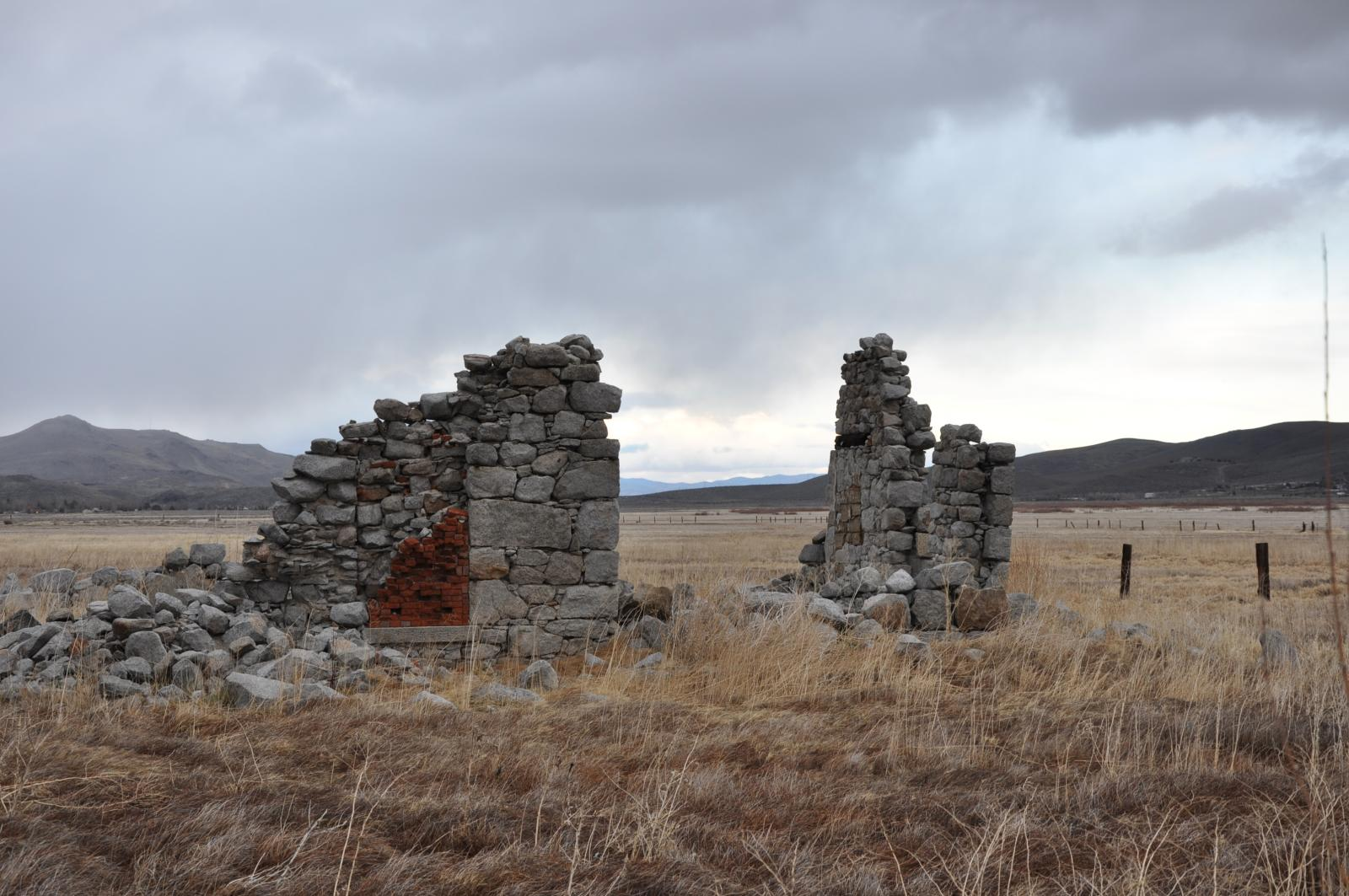 Ophir Mill ruins, Comstock Lode, NV. The last remains of a "quartz mill" at the site of Ophir along hwy 395 on the west shore of Washoe Lake, NV